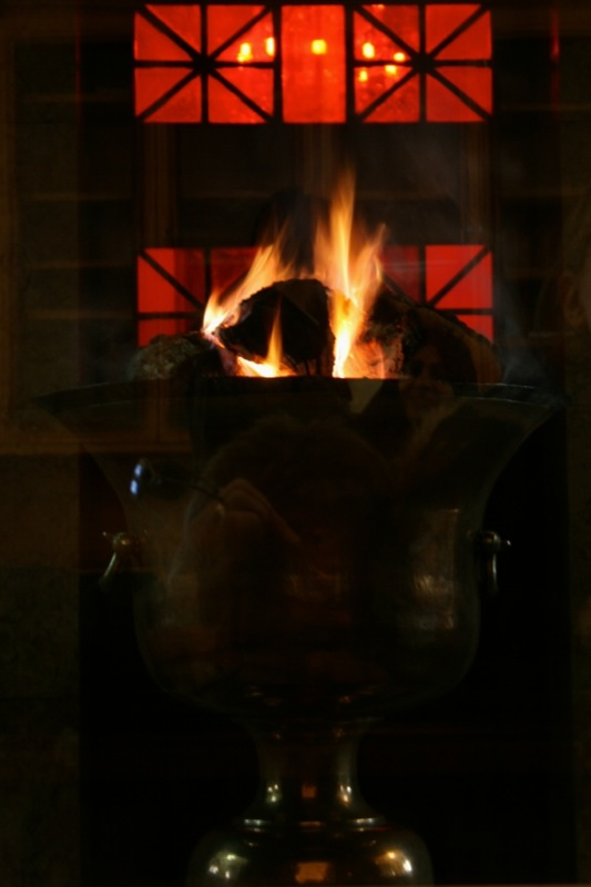 Fire in the fire temple, burning allegedly for 1000 years